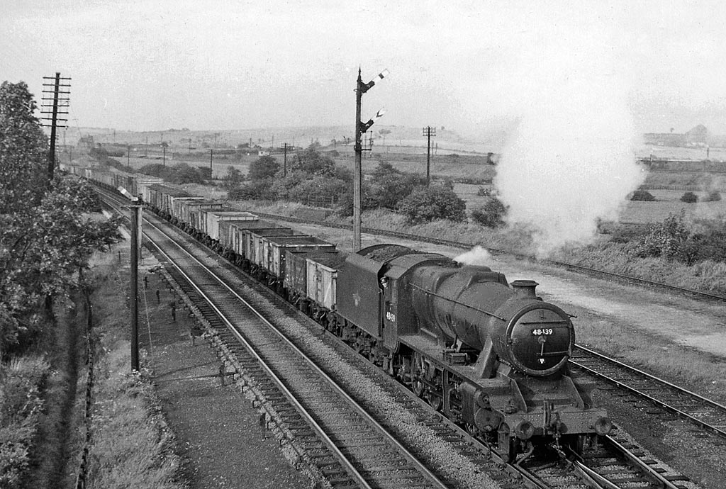 Up coal train at Killamarsh West. View northward on the ex-Midland (North Midland 'Old Road') Chesterfield - Rotherham section of the London St Pancras - Yorkshire trunk route, a section by-passing Sheffield and largely devoted to freight traffic. The locomotive is Stanier 8F 2-8-0 No. 48439.